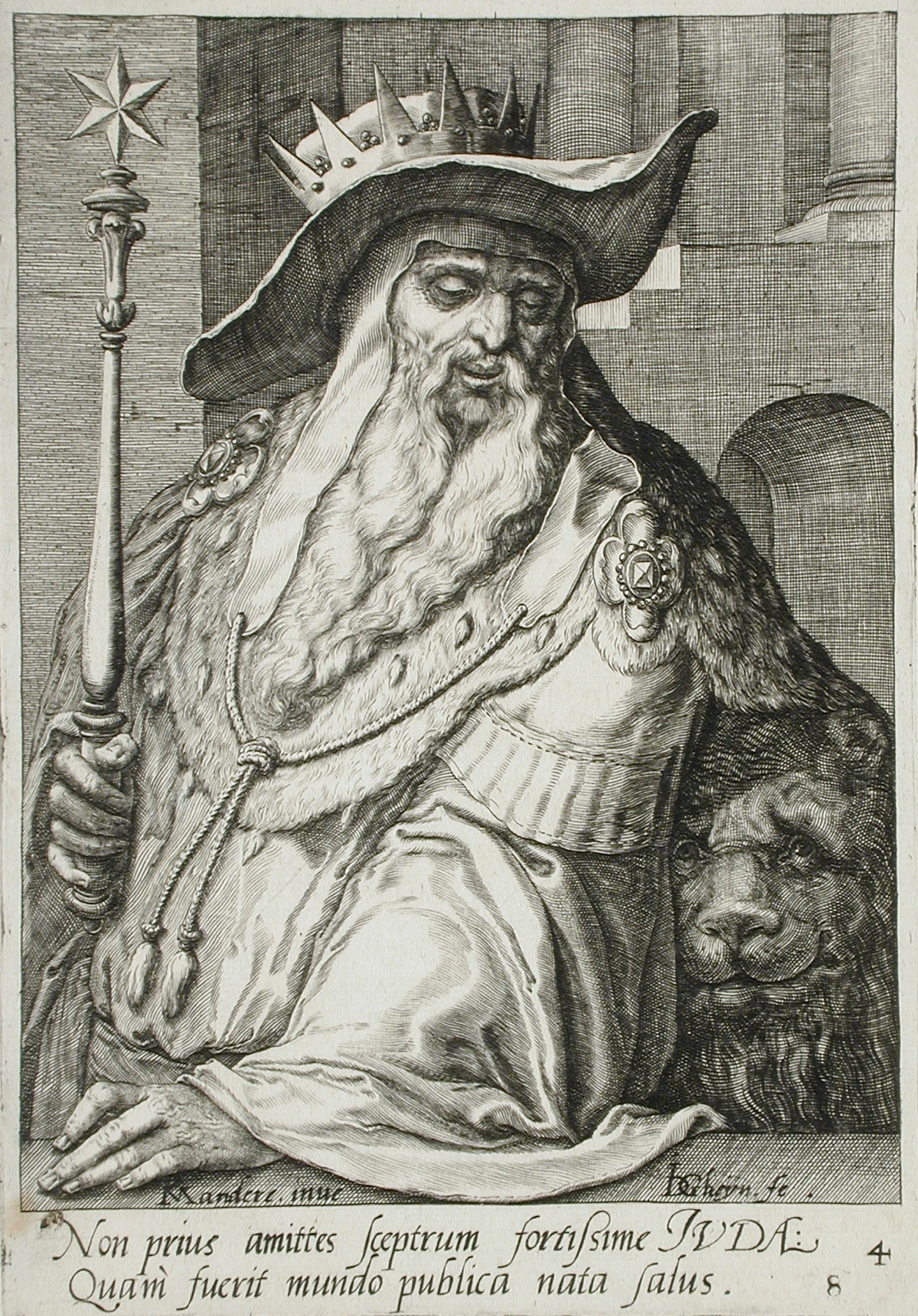 Holland, circa 1590 Series: The Twelve Sons of Jacob, pl. 4 Edition: First edition Prints; engravings Engraving Mary Stansbury Ruiz Bequest (M.88.91.296d) Prints and Drawings